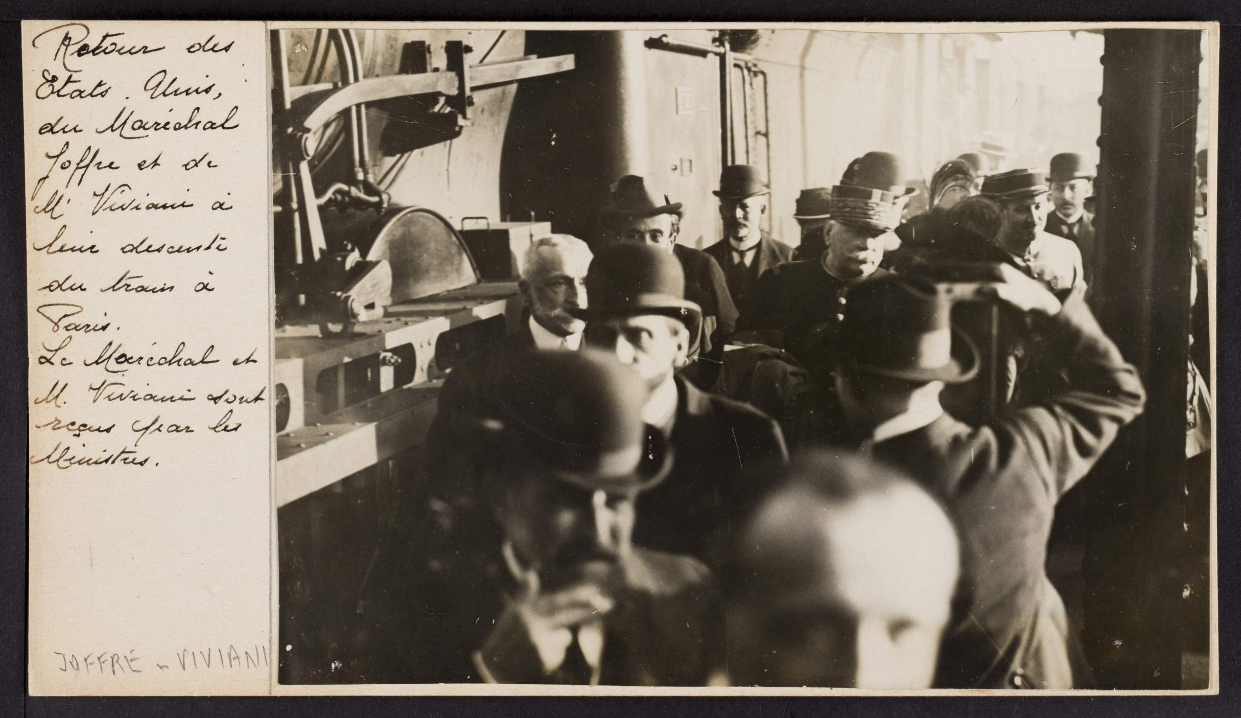 Retour des États-Unis du Maréchal Joffre et de M. Viviani à leur descente du train à Paris.Le Maréchal et MR. Viviani sont reçus par les Ministers.